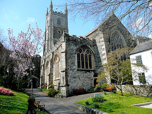 St. Finbar's church, Fowey Looking from the south-east.